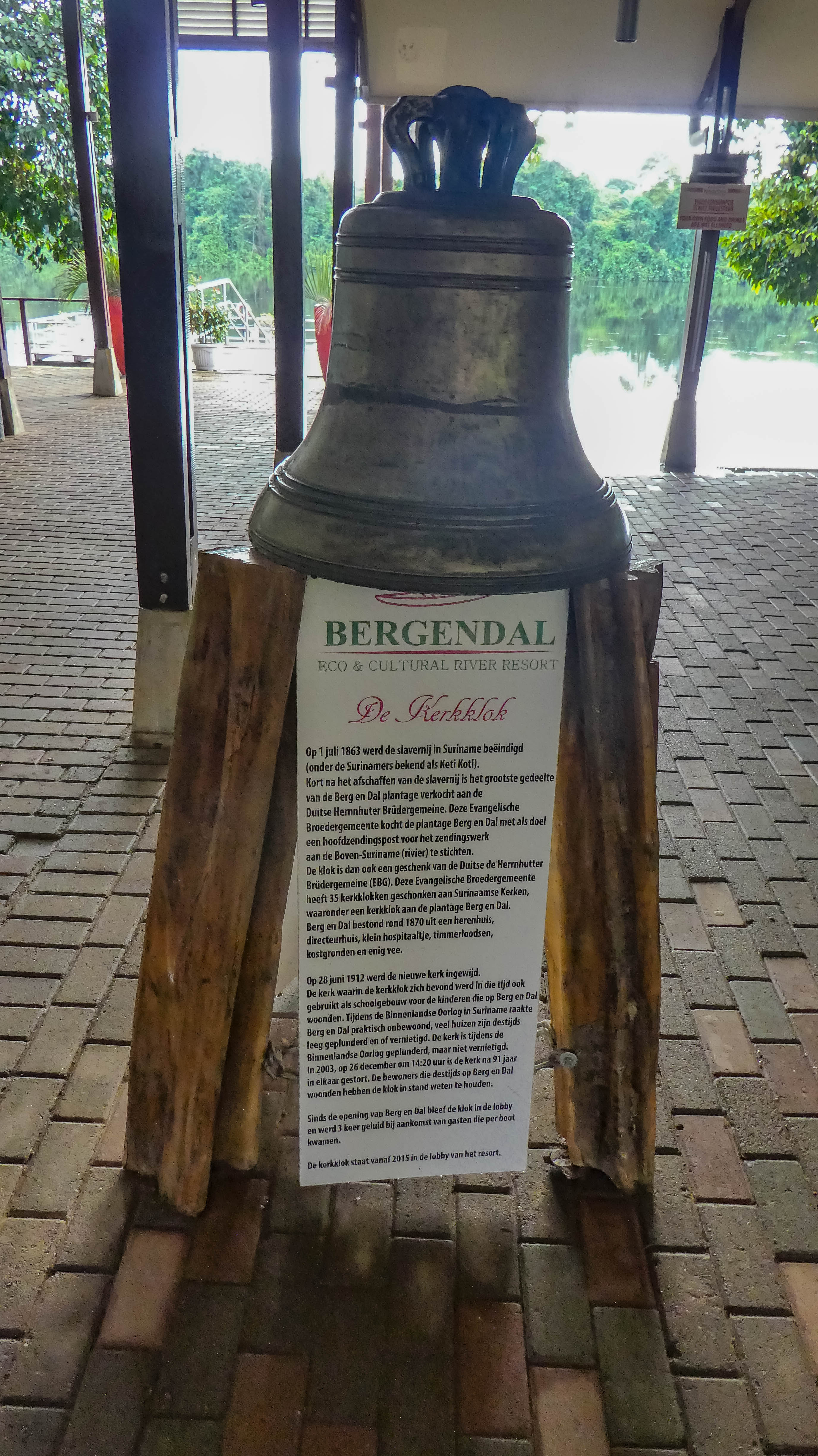 The bell donated by the German Hernnhutter Brotherhood to the plantation Berg en Dal in 1912. During the Suriname civil war, the plantation and its village were abandoned, but the church and its bell were unharmed. When the church finally collapesed in 2003, the bell was moved to the lobby of the Bergendal resort.